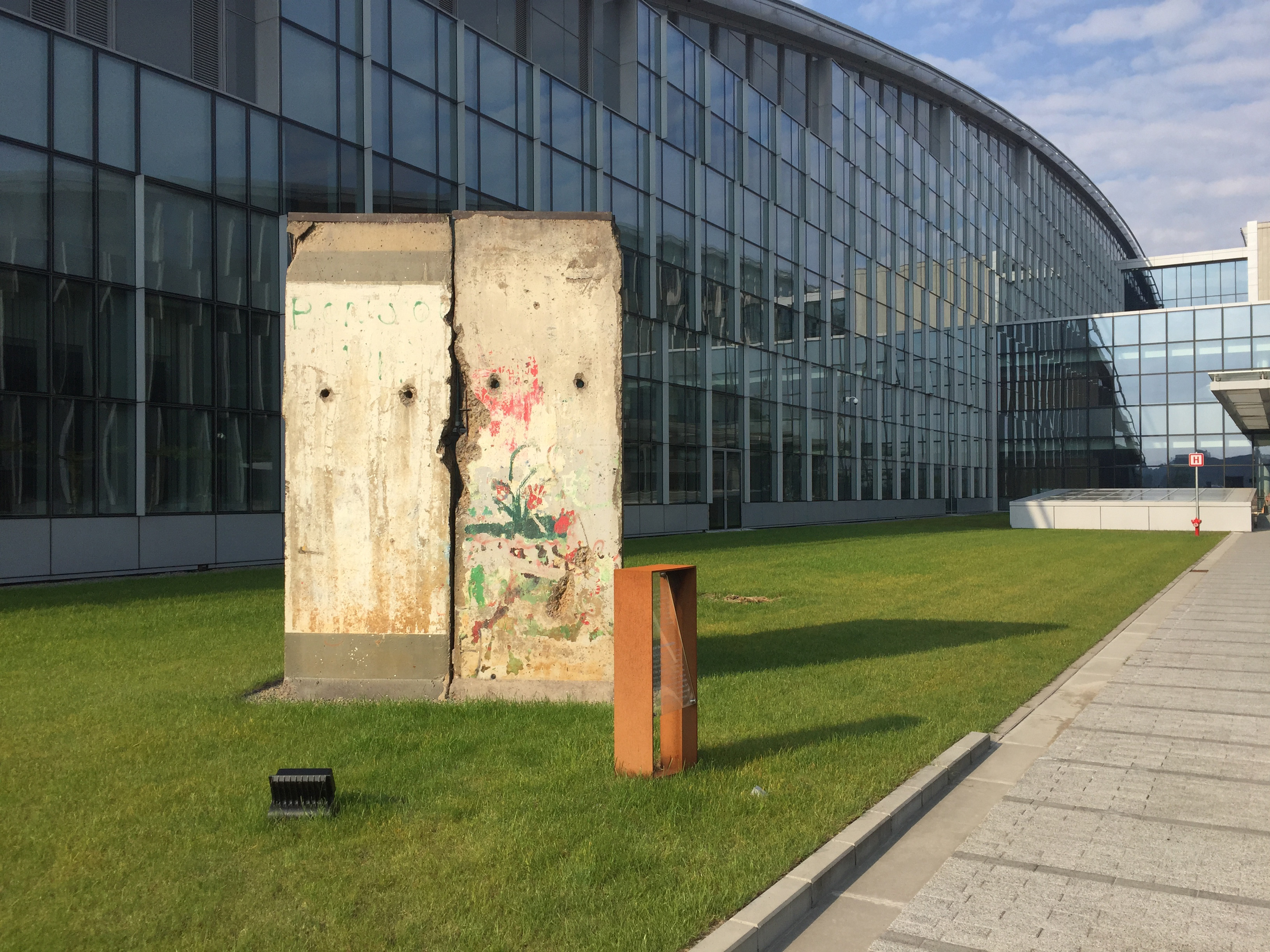 A section of the Berlin Wall on display at NATO Headquarters outside Brussels, Belgium.